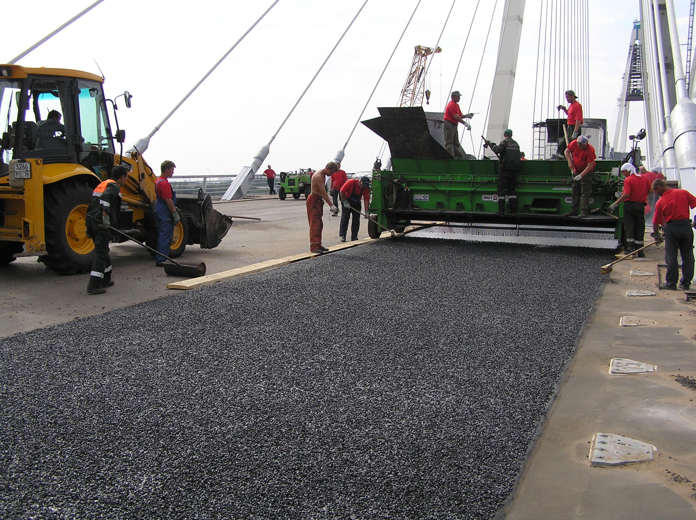 The Big Obukhovsky bridge in Saint Petersburg, Russia. A newly laid mastic asphalt concrete layer is coated with a layer of hard gravel (10-15 mm).